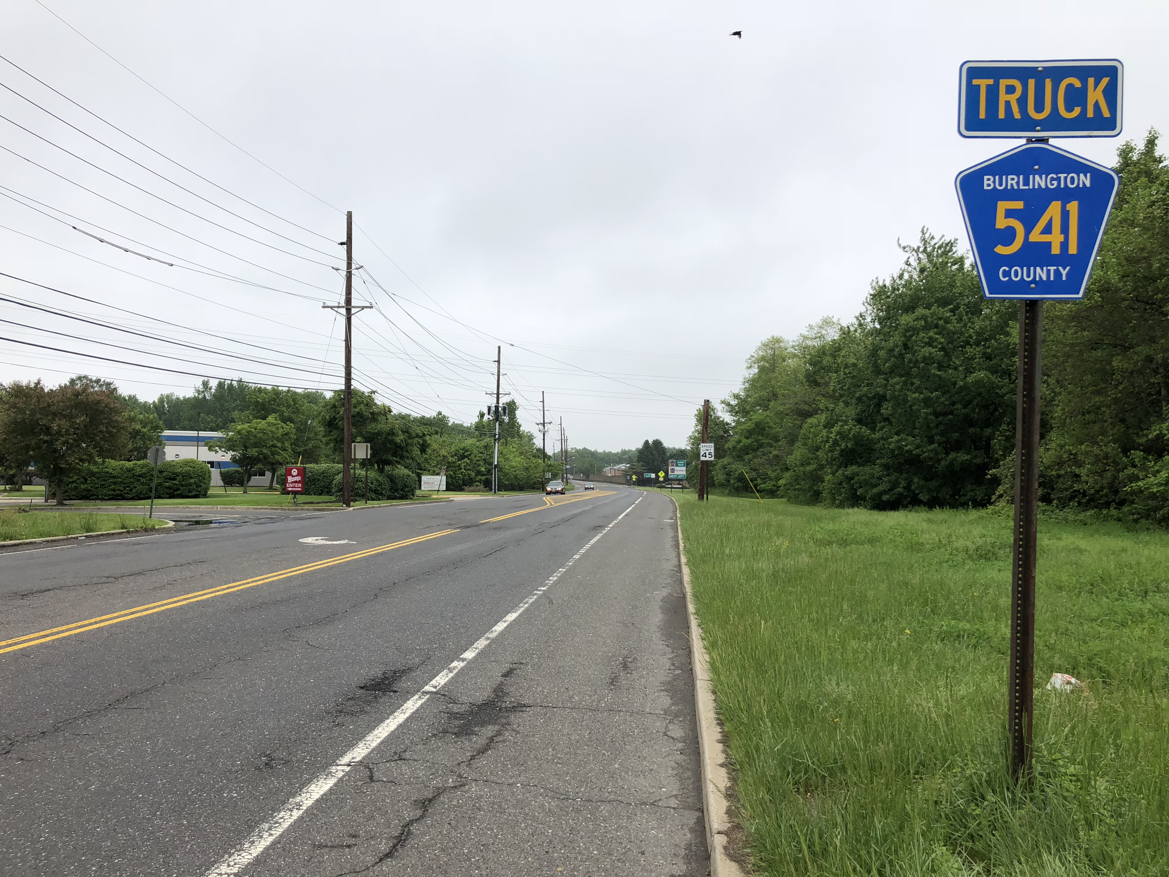 View north along Burlington County Route 541 Truck (Burlington Bypass) at Cadillac Road in Burlington Township, Burlington County, New Jersey